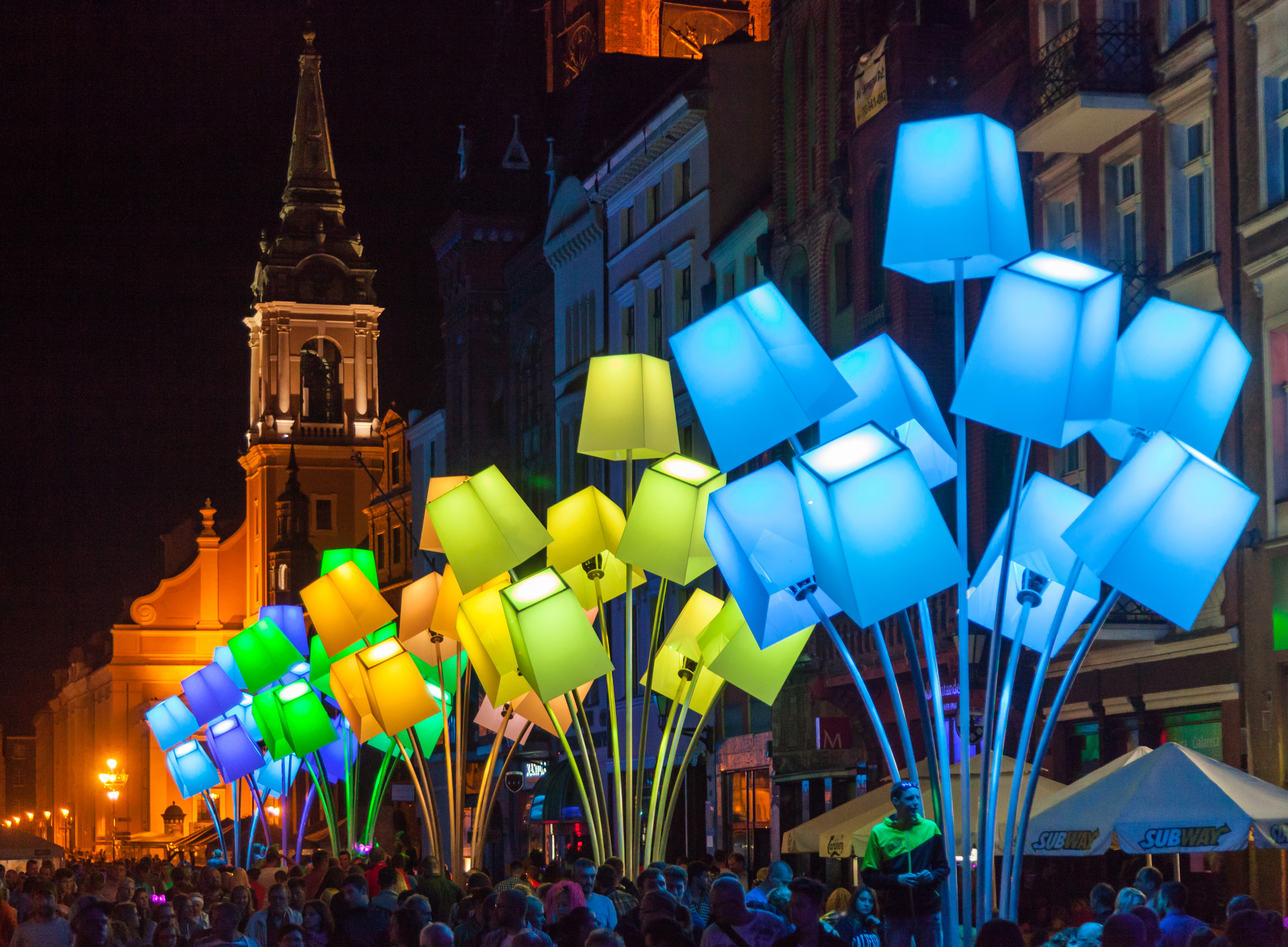 International Light Festival Bella Skyway in Toruń. Bouquet of Lampshades installation.